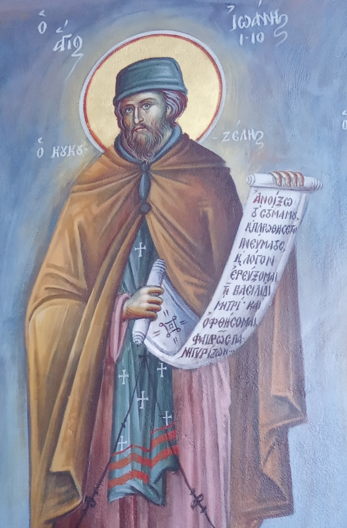 Mural painting of Saint John Koukouzelis (Church of the Three Holy Hierarchs, Patras, Greece)